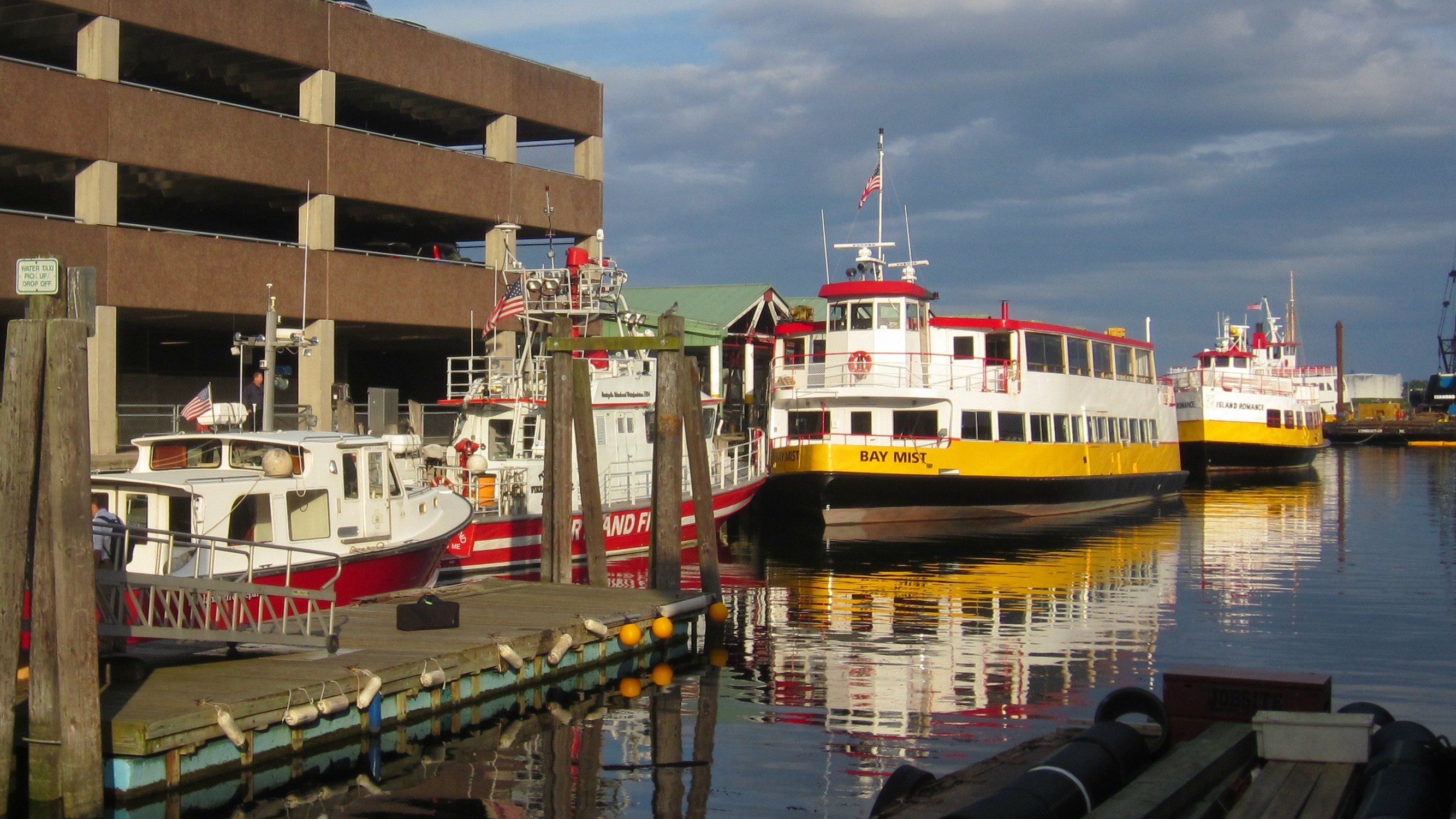 Casco Bay Ferries.